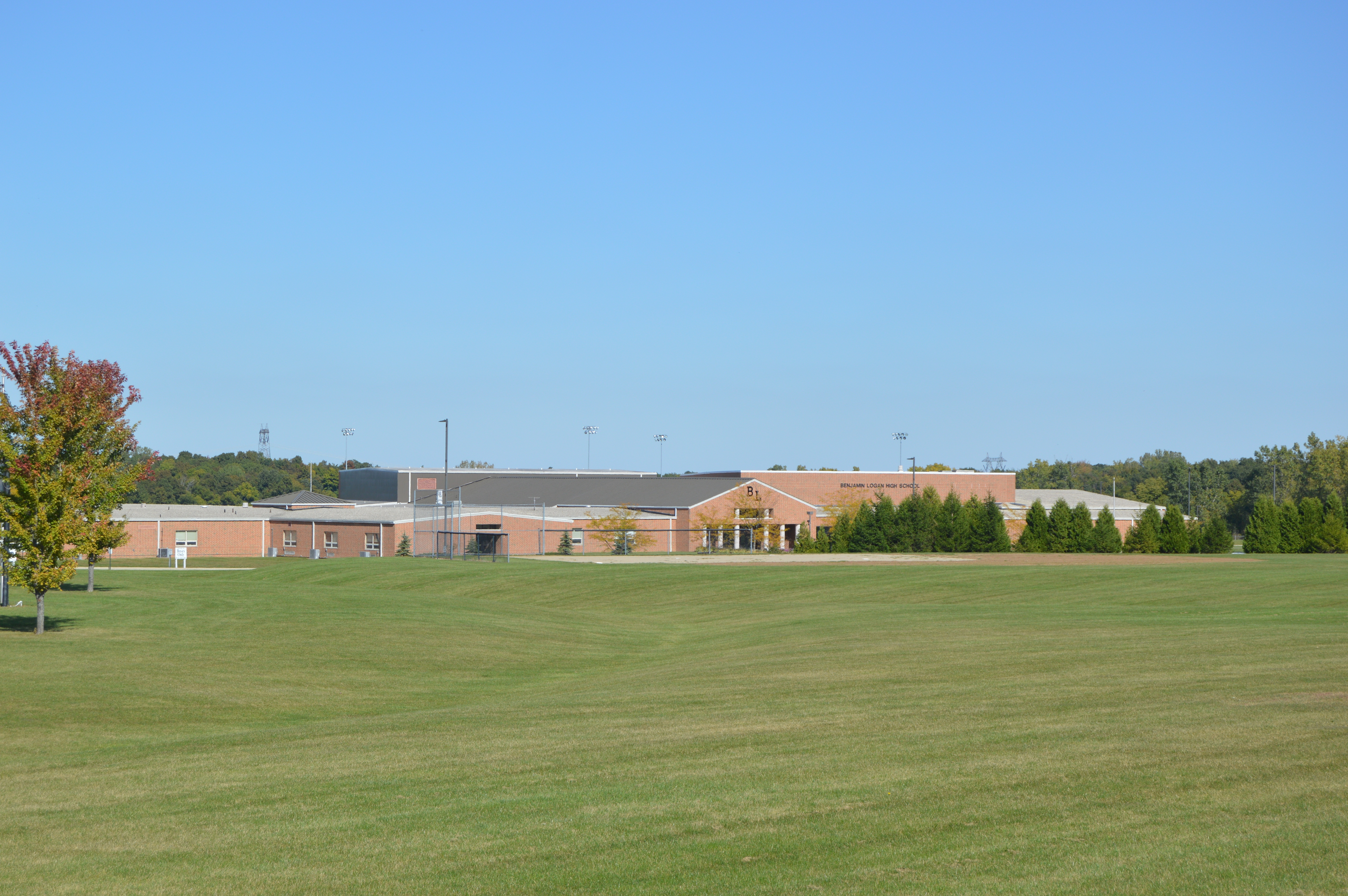 Distant view from the southwest of the main building at Benjamin Logan High School, located at 6609 State Route 47 in Rushcreek Township, Logan County, Ohio, United States.